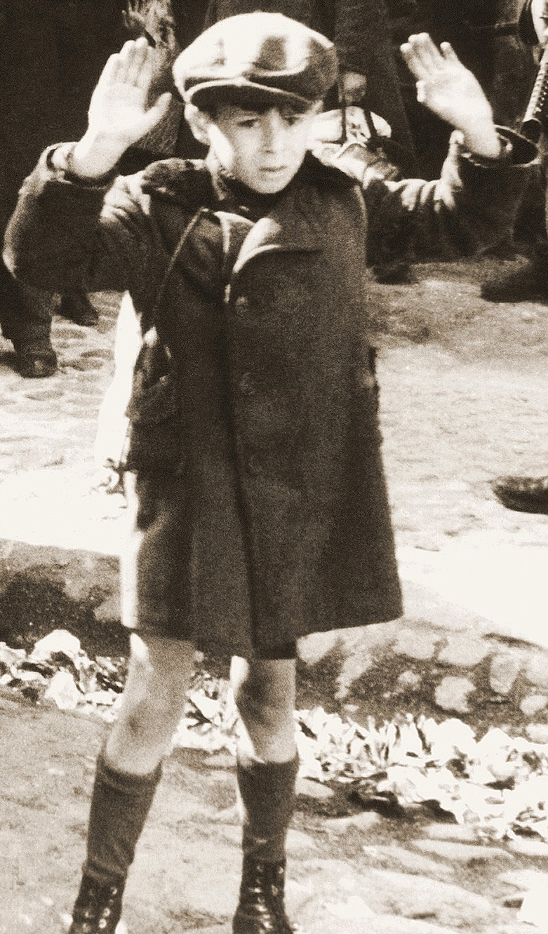 Boy on one of the most famous pictures of World War II and the Holocaust